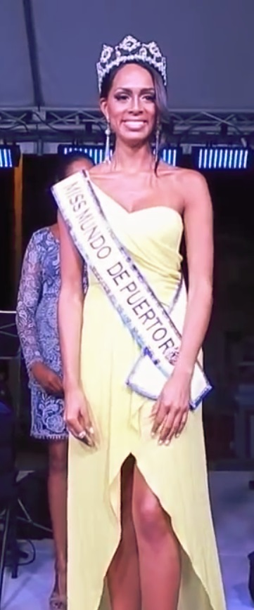 Génesis Dávila, Puerto Rican beauty queen, in Arroyo.